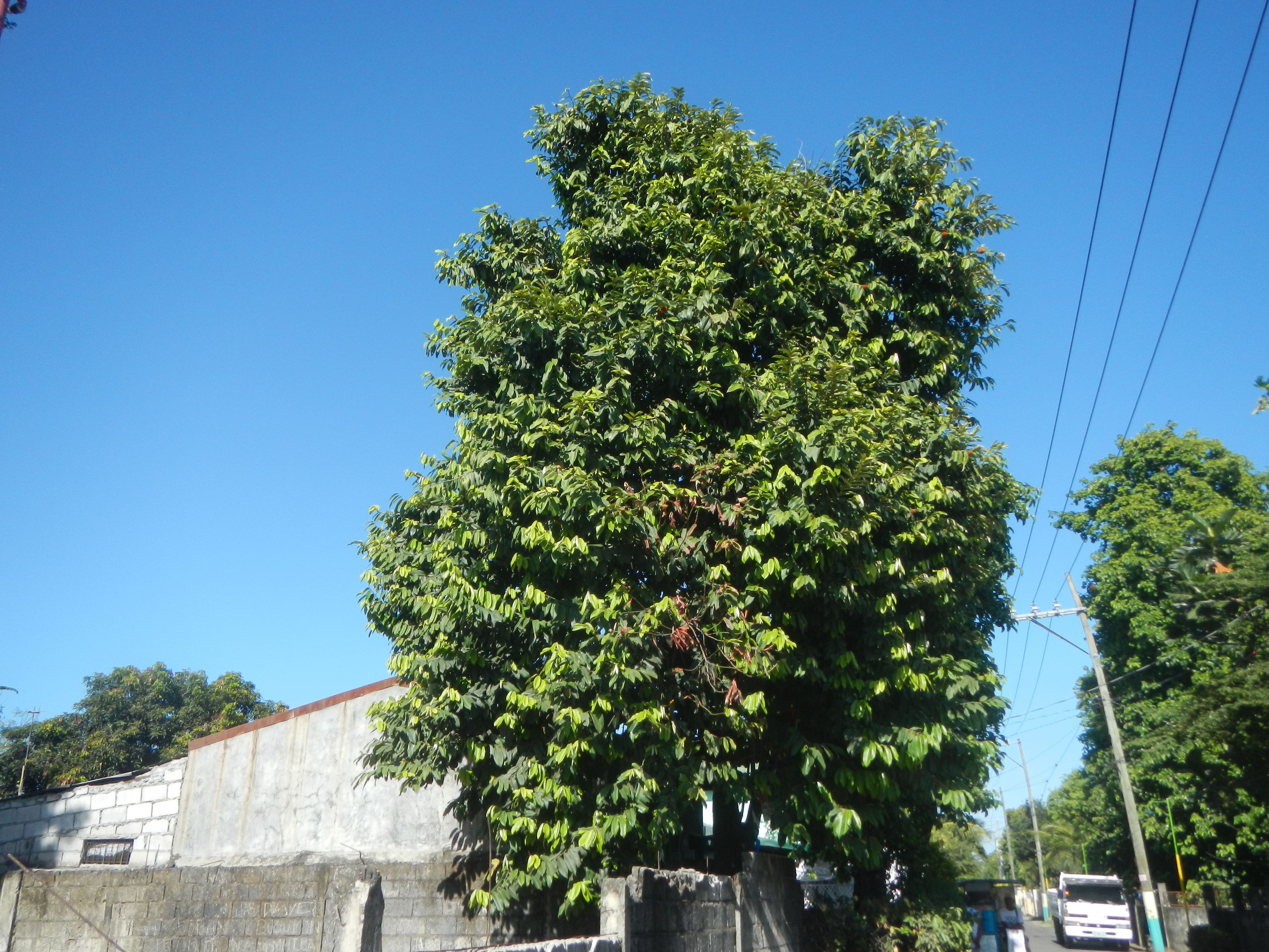 Diospyros blancoi Rueda, Plaridel, Bulacan Elementary School Dampol - Rueda, Plaridel, Bulacan Municipal and Farm-to-Market Roads (Construction of Plaridel - Calumpit, Bulacan via San Marcos Road) Construction of Plaridel - Calumpit, Bulacan via San Marcos Road P 18.466 million; Maize fields in Sipat-Dampol, Plaridel, Bulacan Farm-to-Market Road Barangay Sipat 14°53'51"N 120°50'5"E Dampol 14°53'39"N 120°49'30"E Rueda 14°53'33"N 120°48'46"E Plaridel, Bulacan (Note: Judge Florentino Floro, the owner, to repeat, Donor Florentino Floro of all these photos hereby donate gratuitously, freely and unconditionally all these photos to and for Wikimedia Commons, exclusively, for public use of the public domain, and again without any condition whatsoever).